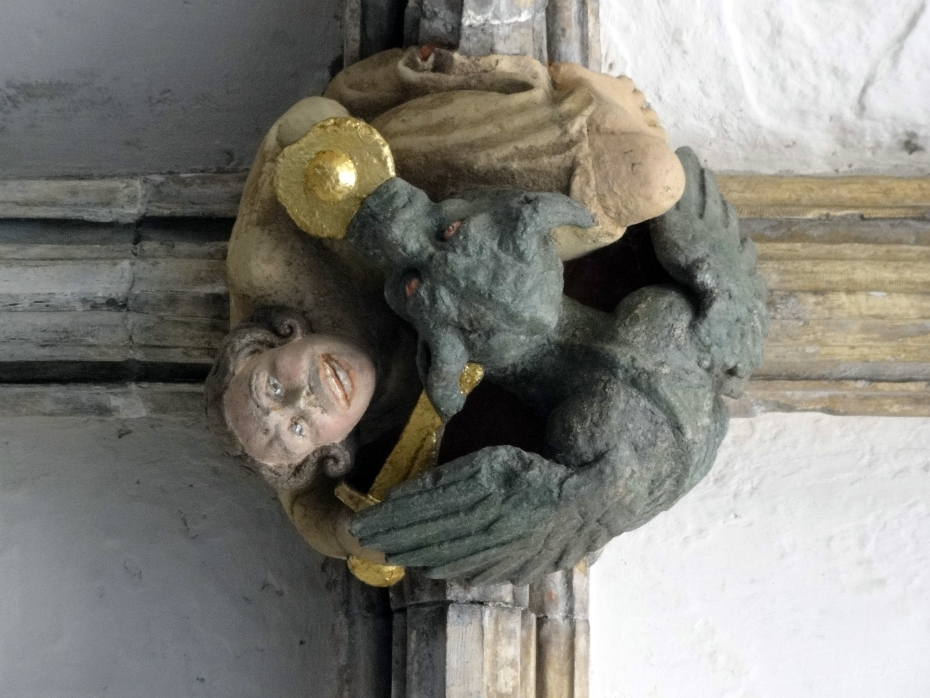 Detail of battle with demon in the cloister ceiling.